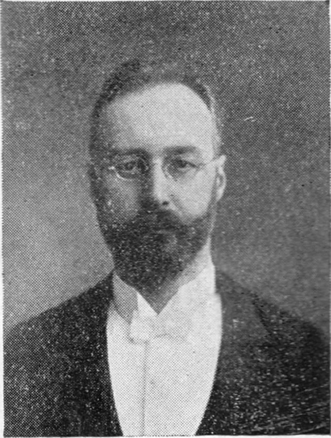 Josef Starlinger (1862-1943)